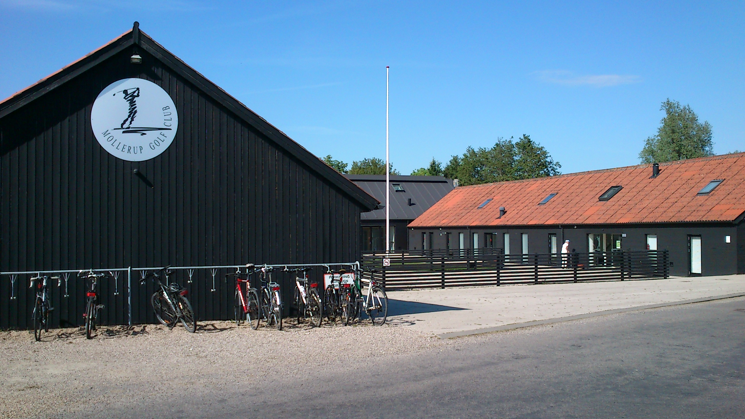 Mollerup Golfklub